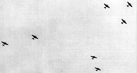 Soviet SB bombers appears on the sky above Helsinki, the capital of Finland, November 30, 1939.